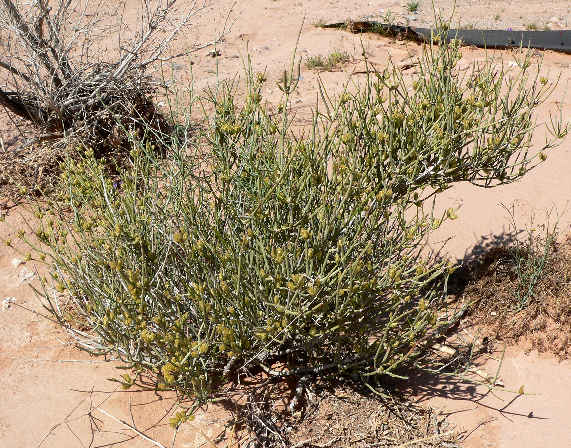 Ephedra torreyana in Government Wash near the crossing of Northshore Drive, Lake Mead, southern Nevada